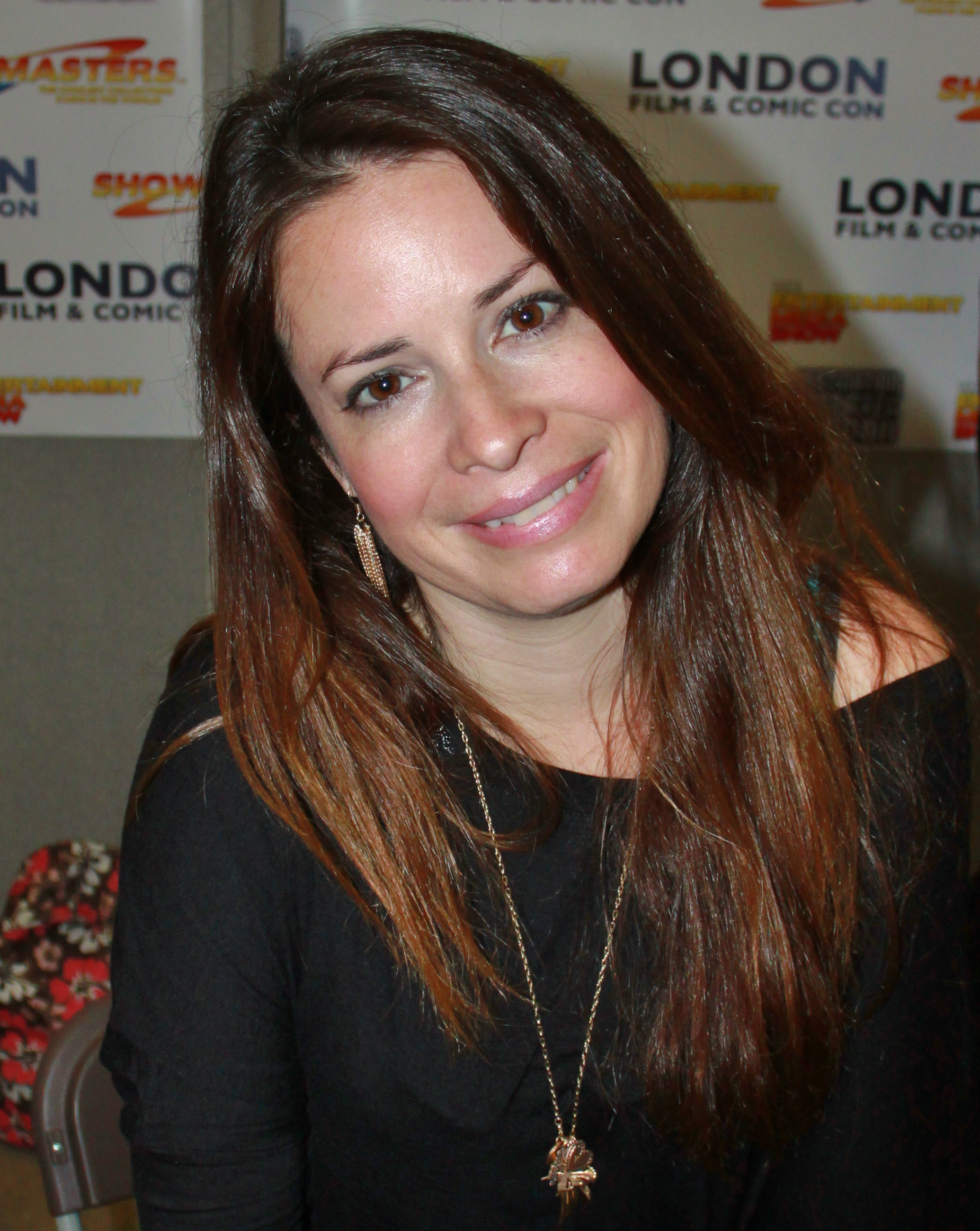 Holly Marie Combs at the London Film and Comic Convention in July 2012.